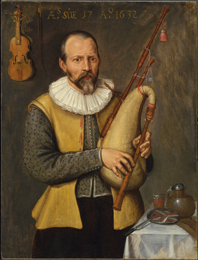 "This unusual picture shows a musician of the early seventeenth century. He stands with the tools of his trade, an elaborately decorated bagpipe, and, on the wall behind him, a violin. Although the eagle on the silver coin may suggest a German, or Habsburg connection, the picture’s style and technique, redolent of Jan Miense Molenaer’s musical subjects, points to both a Dutch artist and sitter." - Phillip Mould Gallery catalogue entry.